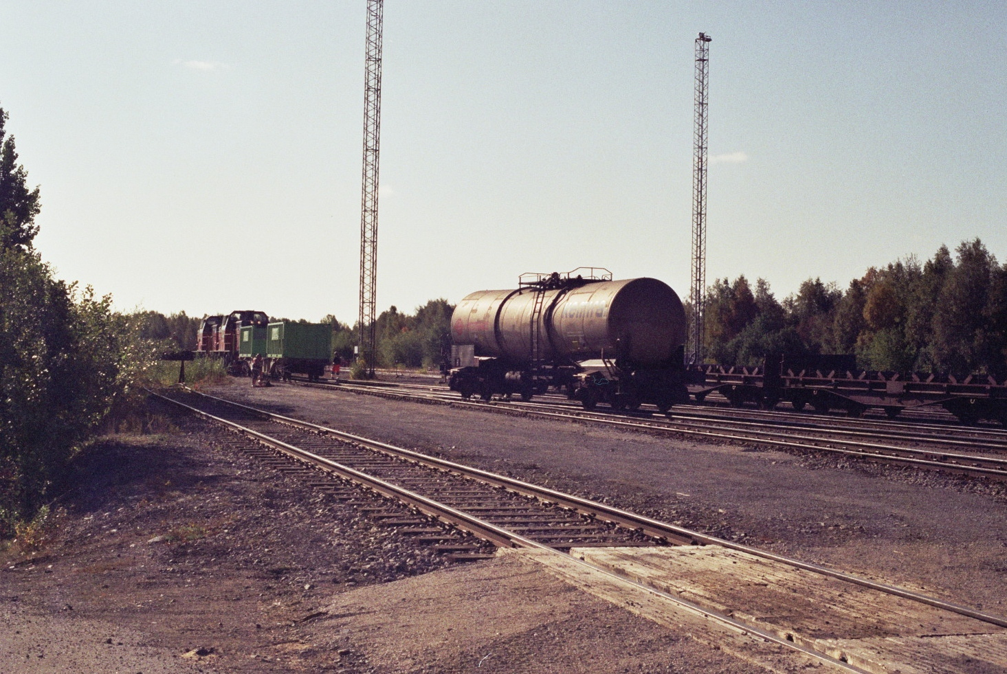 Employees of Green Cargo sorting railway wagons in the VR freight yard in Tornio, Finland. The locomotives are Swedish class T44.